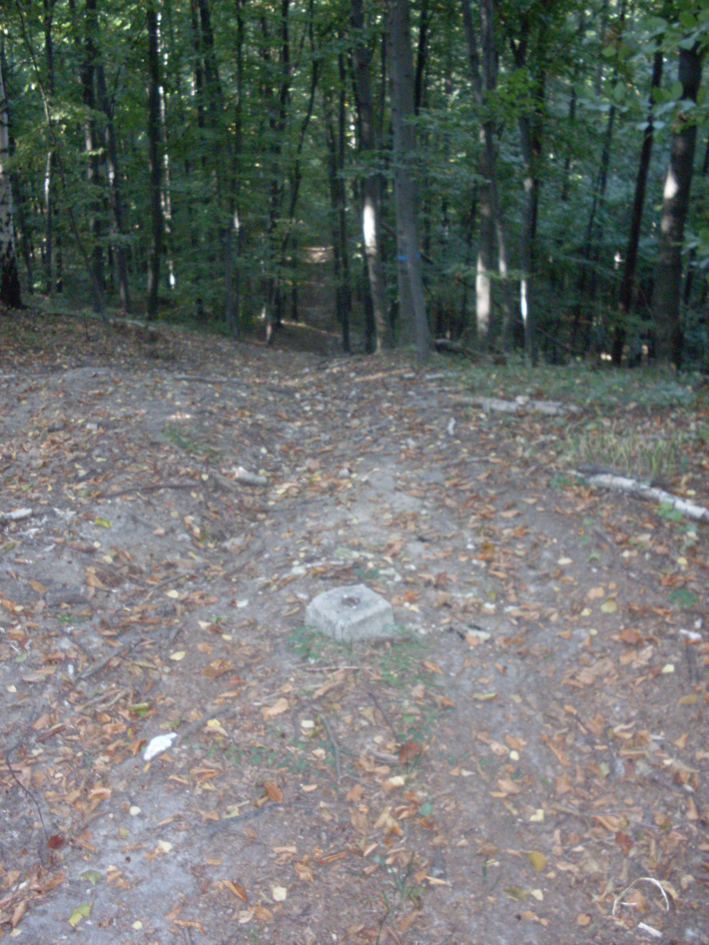 Mount Czerwieniec Poland